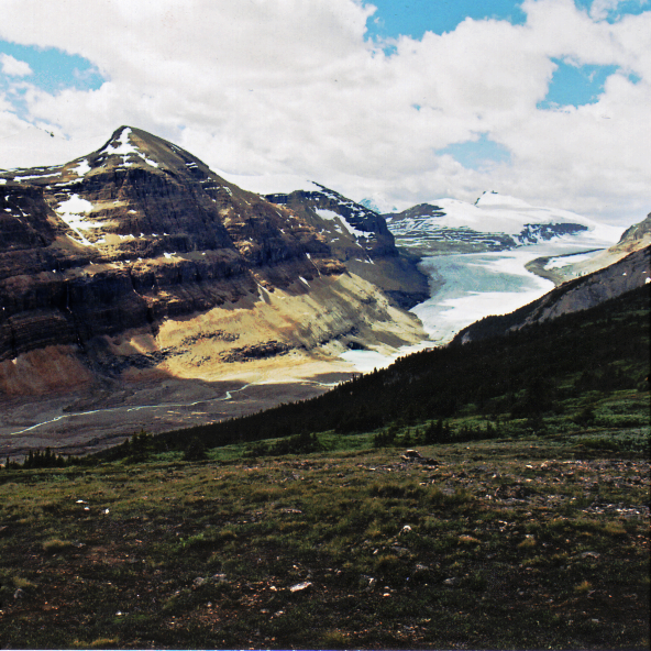 Saskatchewan Glacier, viewed from Parker Ridge